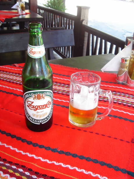 A bottle of Zagorka beer. Photography (c) 2005 user:Qurqa (image by myself).